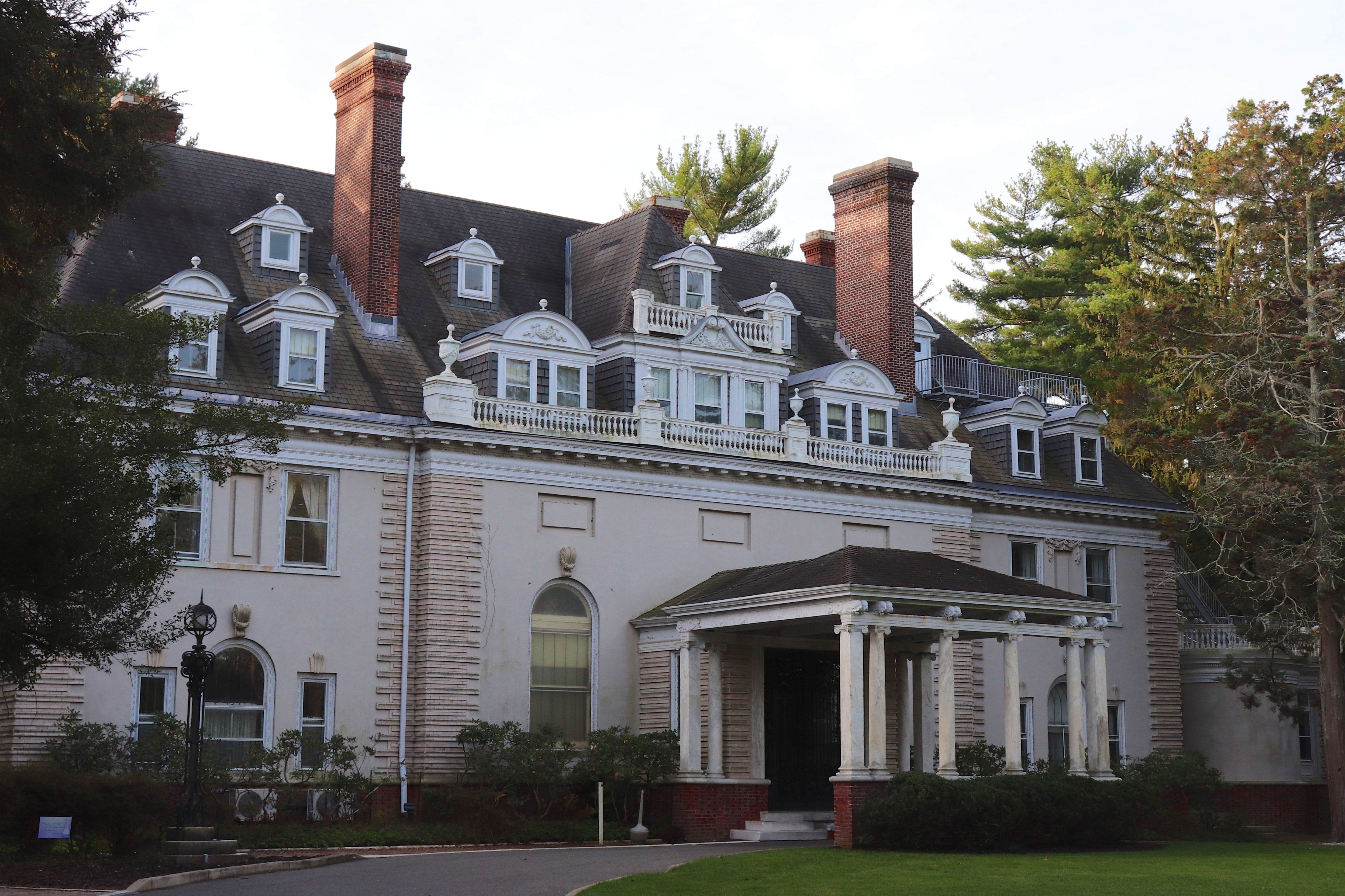 North view of the mansion at Georgian Court University in Lakewood Township, New Jersey.